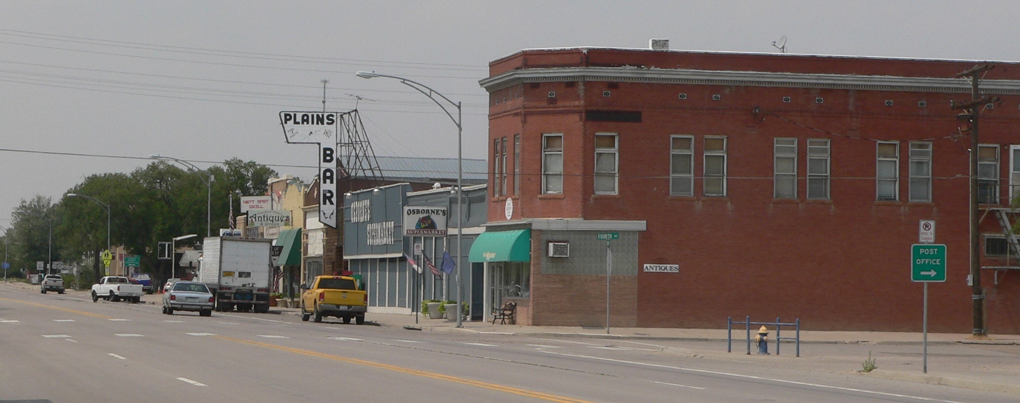 Downtown Hugo, Colorado: camera is facing northwest along 4th Street (U.S. Highway 40/287).